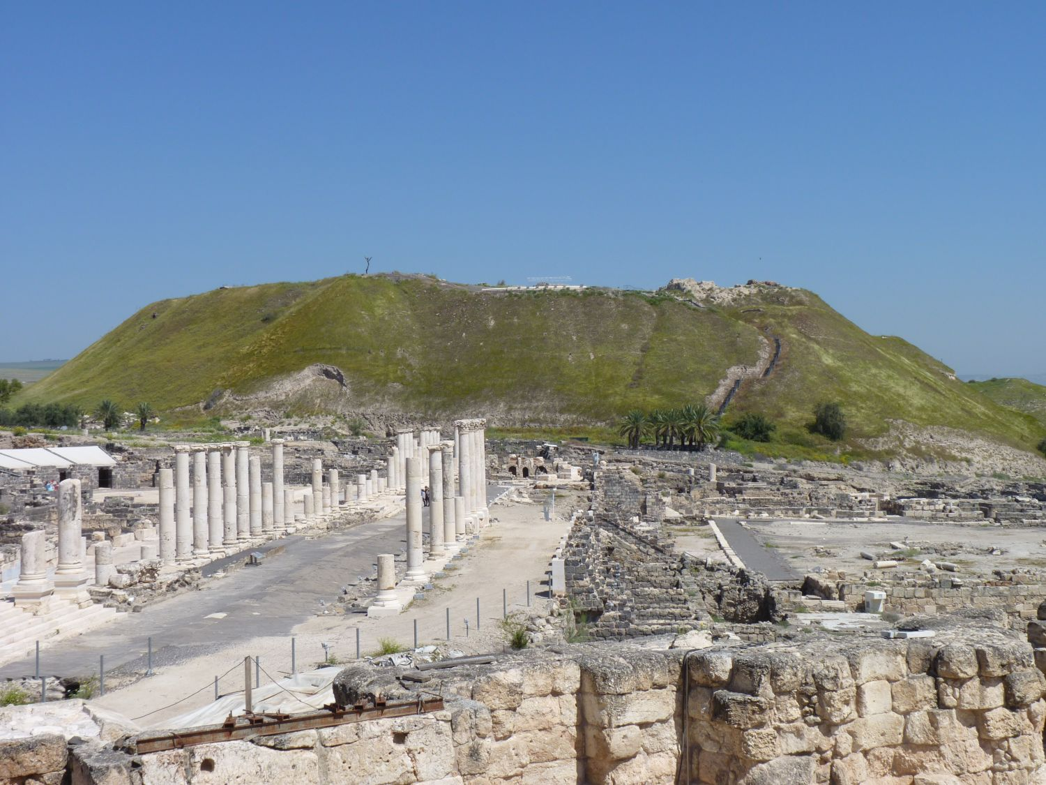 Bet She'an National Park, Bet She'an, Israel; ancient main street and Tel